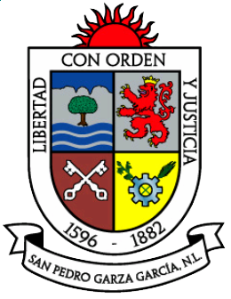 Coat of arms of San Pedro Garza García, Nuevo León, México.